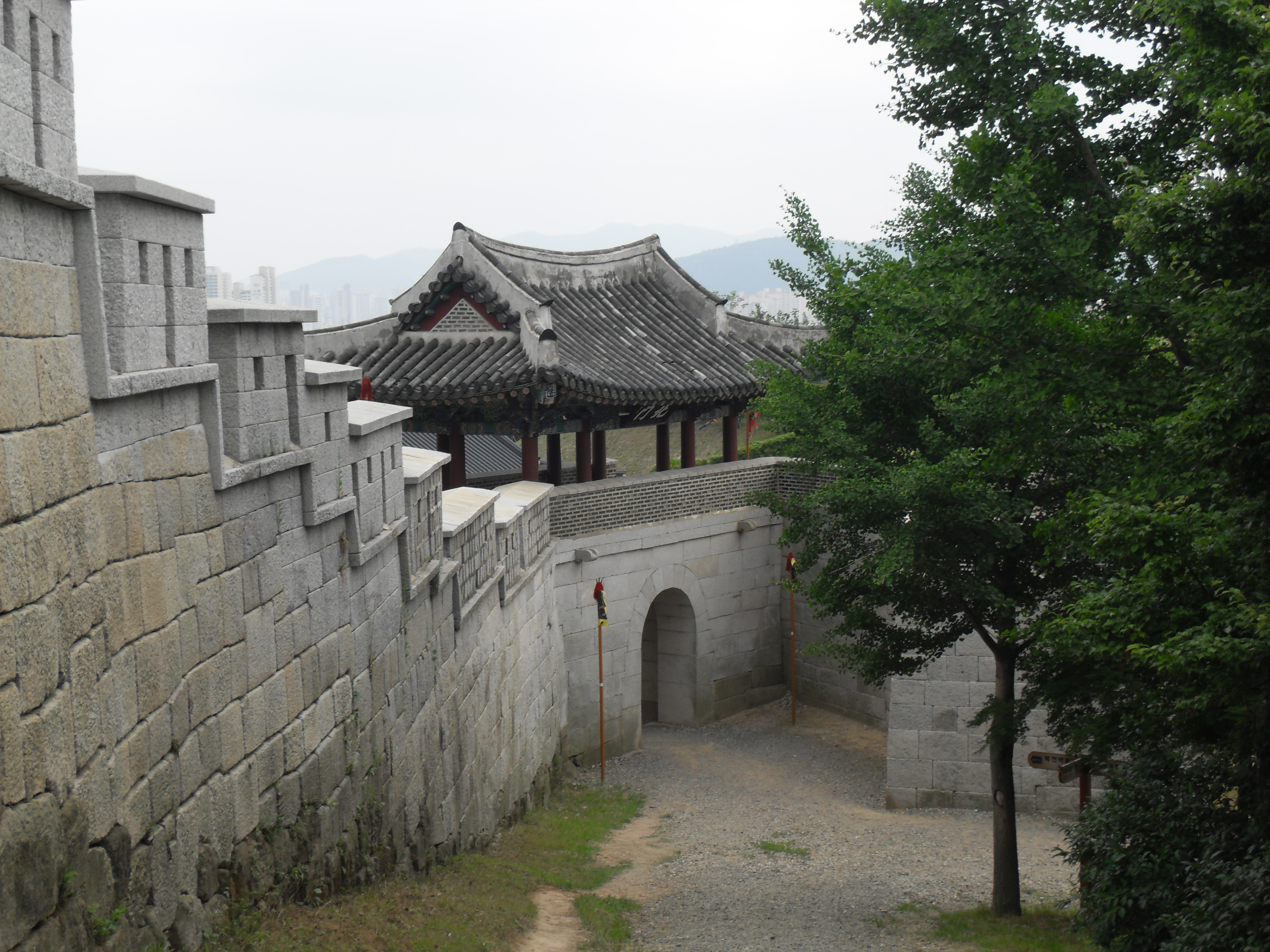 Notrh Gate of the Dongnaeeupseong Fortress Site